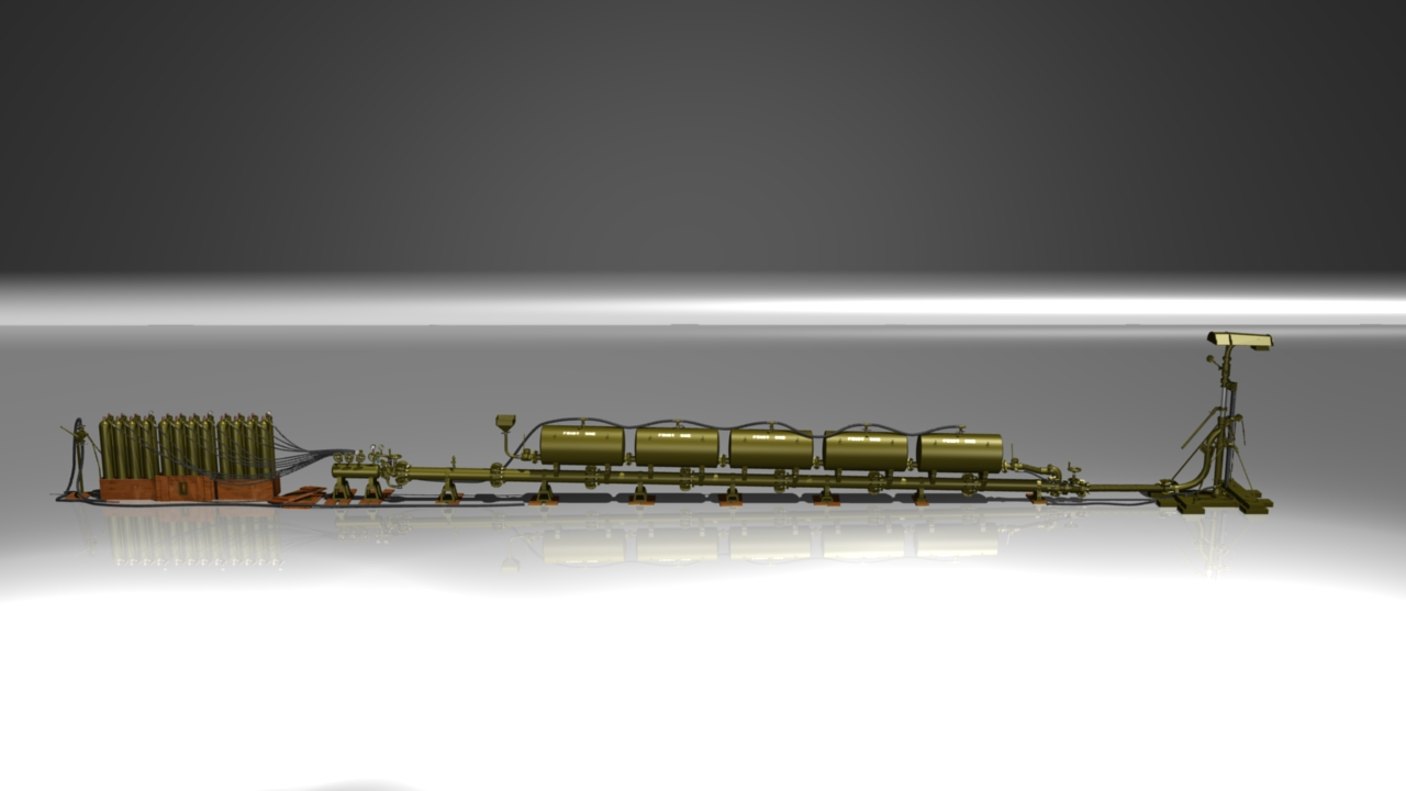 This image show the Livens Large Gallery Flame Projector.